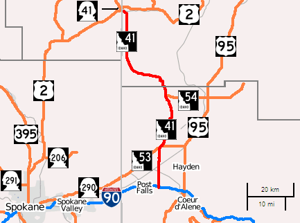 A map showing the route of the Idaho State Highway 41. This map may be incomplete, and may contain errors. Don't rely solely on it for navigation.